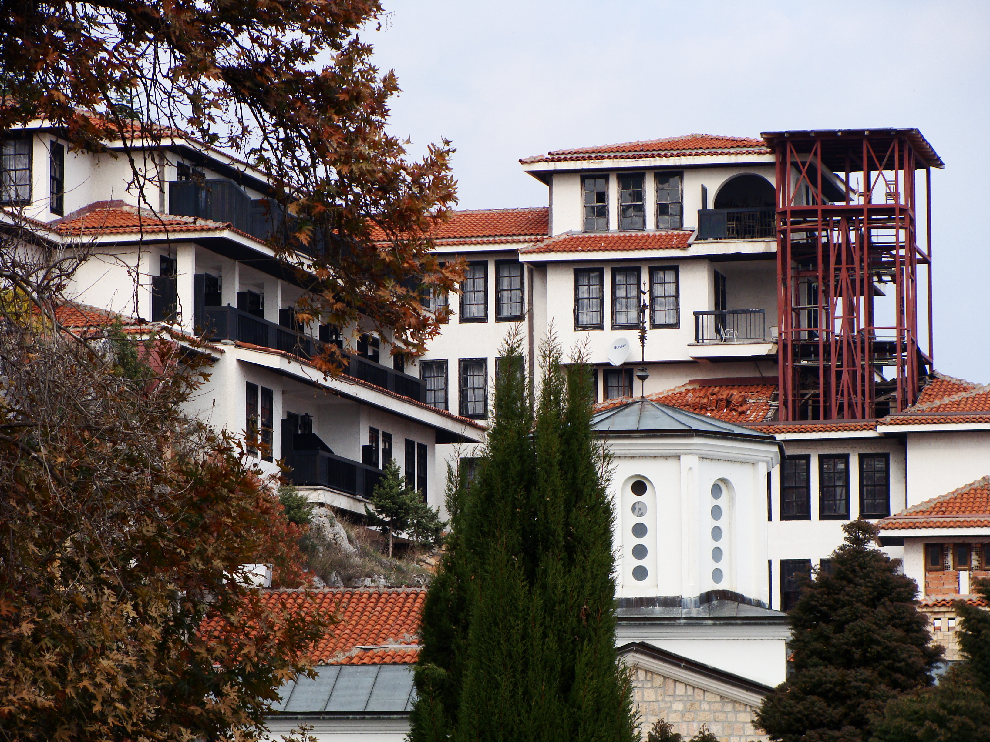 Struga